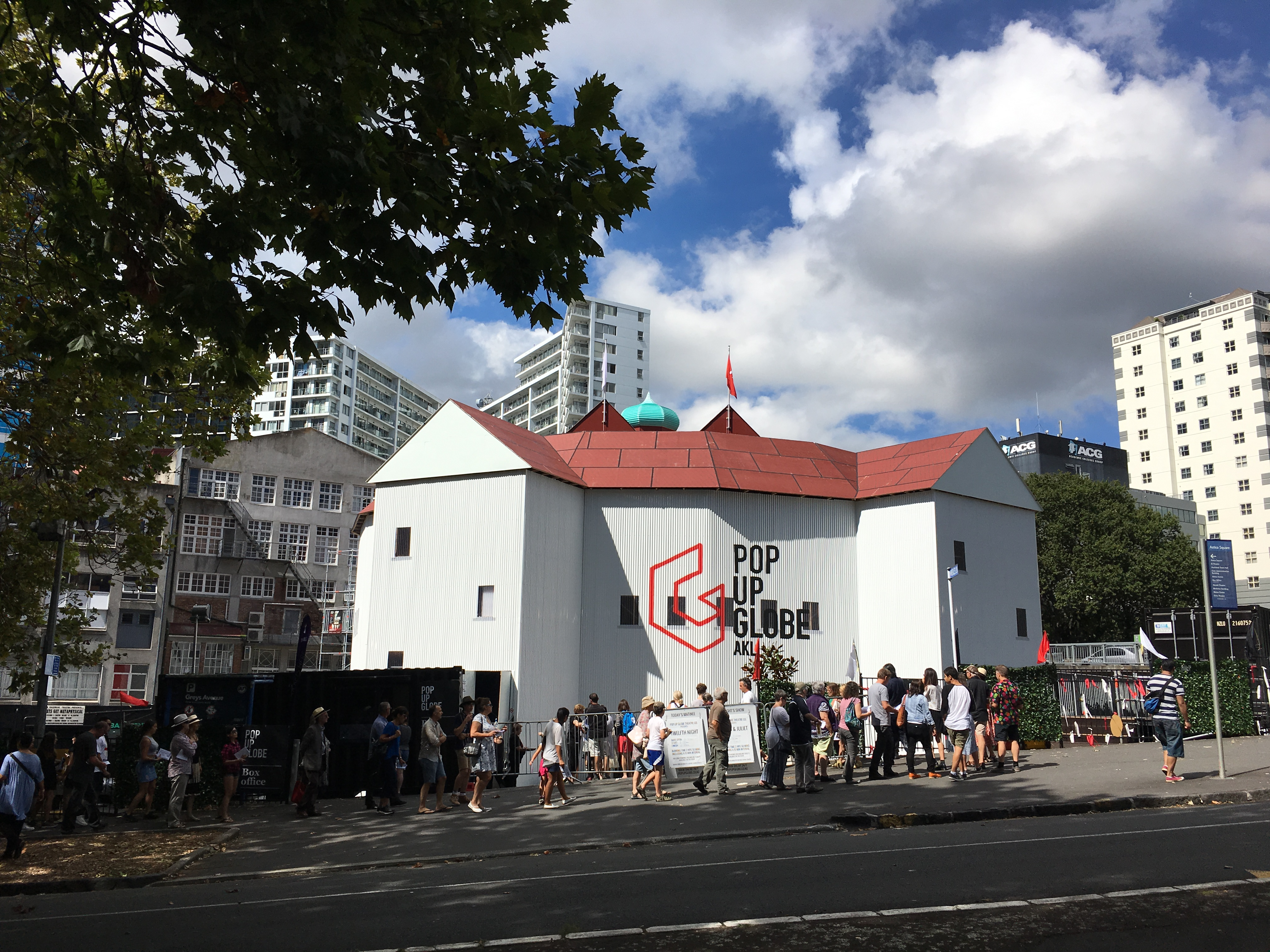 Pop-up Globe's first location, Auckland CBD 2016